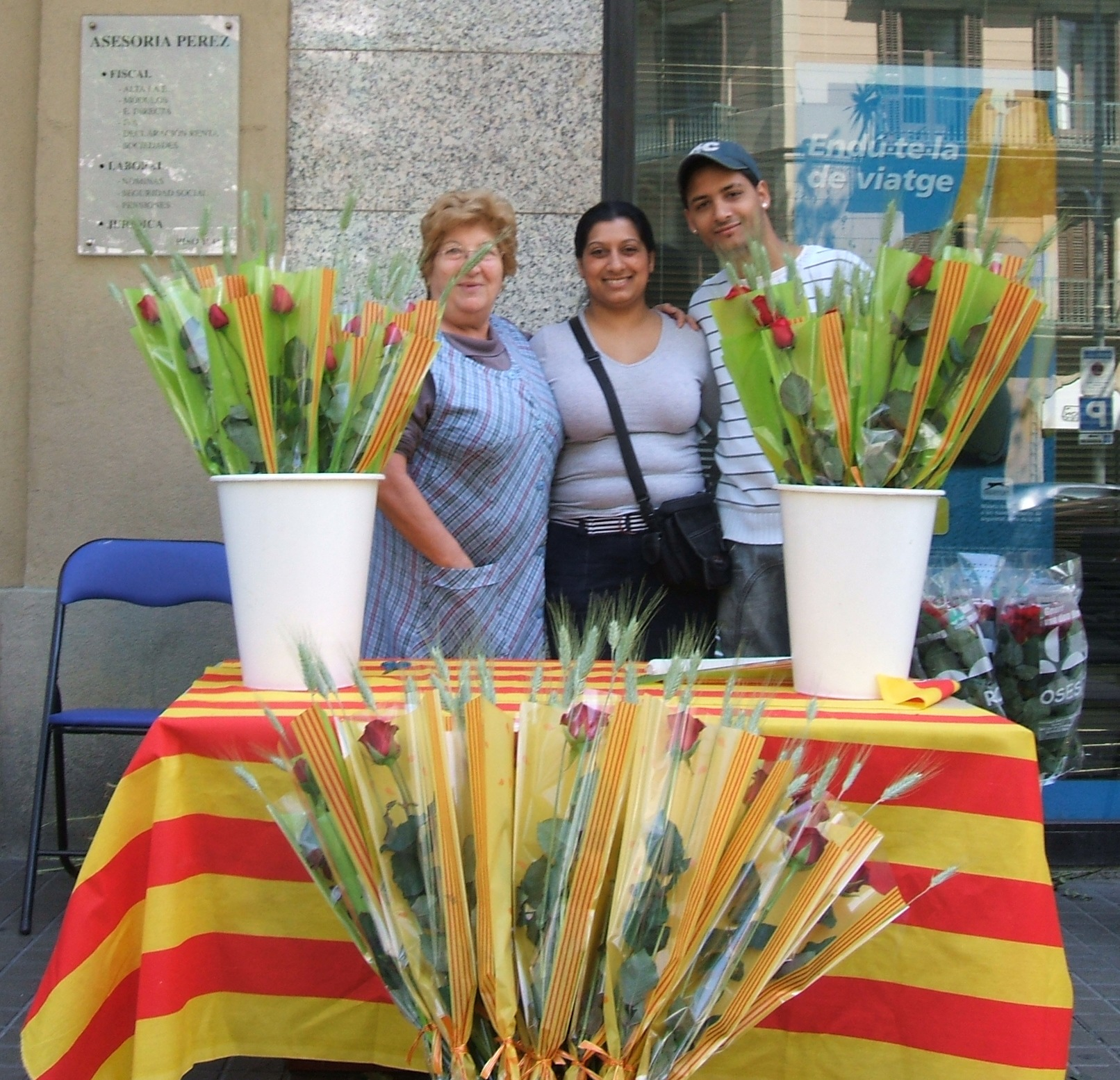 Sant Jordi Holiday in Catalonia